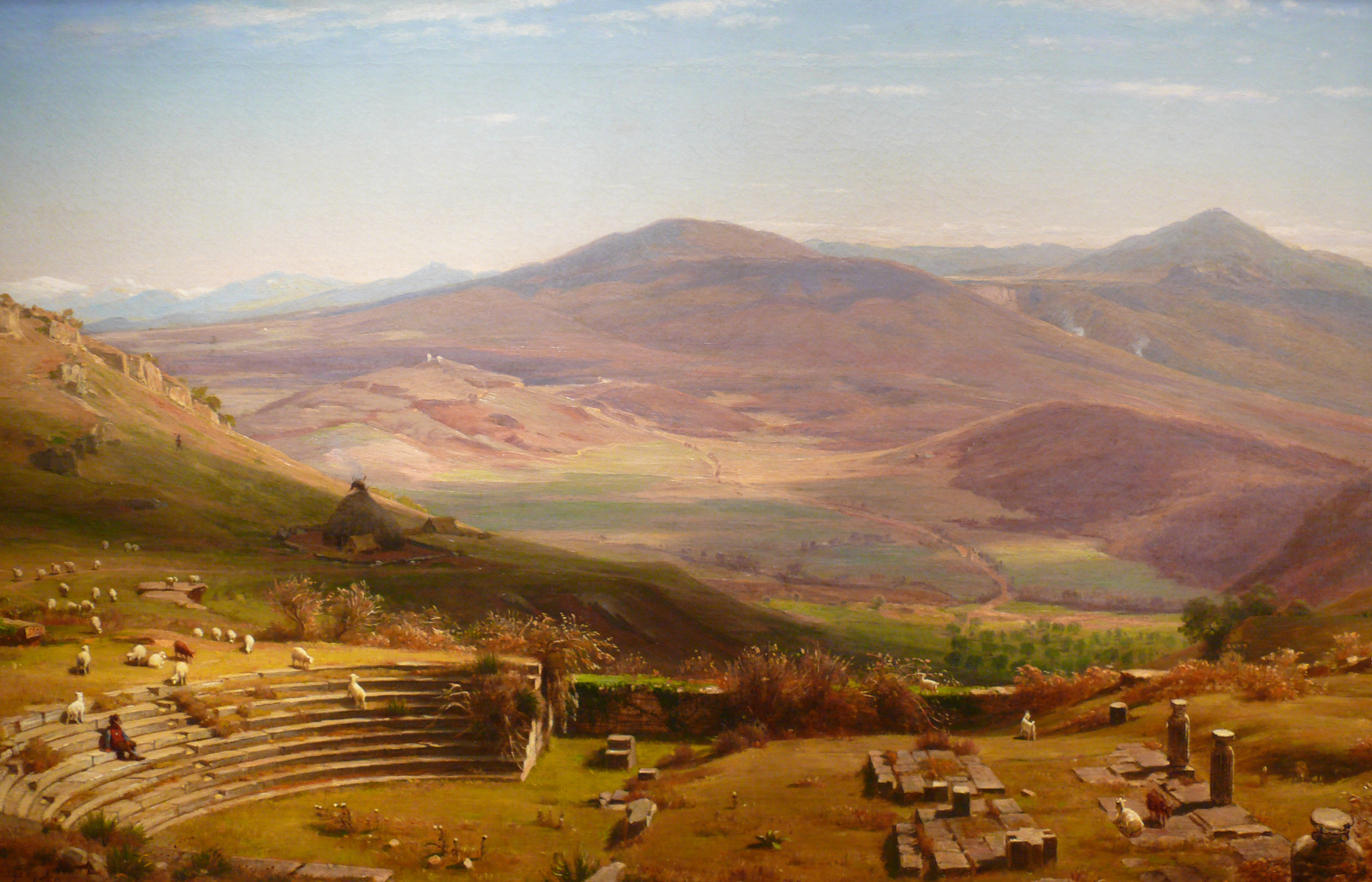 Thomas Worthington Whittredge (May 22, 1820 - February 25, 1910) was an American artist of the Hudson River School. Whittredge was a highly regarded artist of his time, and was friends with several leading Hudson River School artists including Albert Bierstadt and Sanford Robinson Gifford. He traveled widely and excelled at landscape painting, many examples of which are now in major museums. Whittredge spent nearly ten years in Europe, meeting and travelling with other important artists. The ancient culture of Italy offered a poignant tale of faded glory contrasting with America's rise to economic power. The Tusculum theatre is shown in the harsh light of day